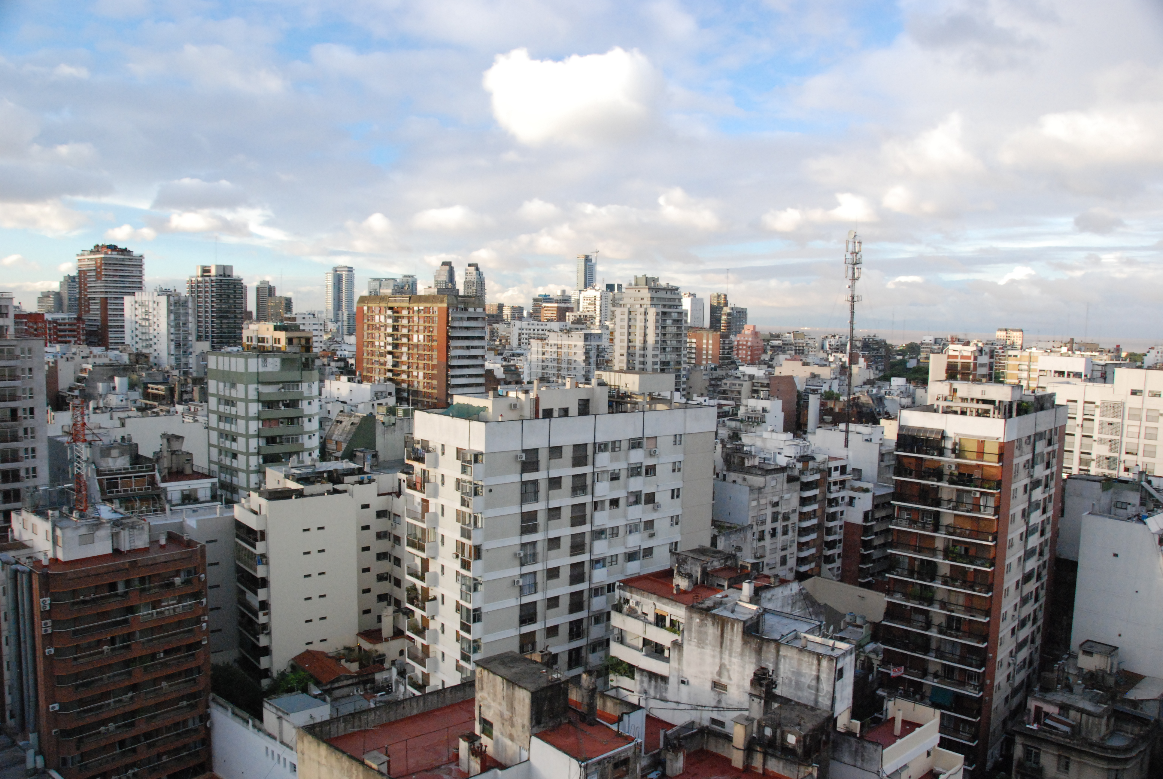 View from a highrise on Agüero and Beruti Streets, Buenos Aires.